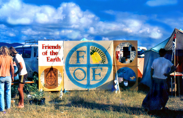 This photo was taken at the 1978 Nambassa festival held in New Zealand by Official Nambassa Photographer and uploaded byMombas 09:32, 21 June 2007 (UTC) ,Nambassa dot com Terms of Use: 1/ All users of this image are required to attribute this work to "Nambassa Trust and Peter Terry" and the url: " " is to accompany all use. 2/ Attribution. You must attribute the work in the manner specified by the author or licensor. 3/ For any reuse or distribution, you must make clear to others the license terms of this work. Statement by Nambassa Trust and Peter Terry